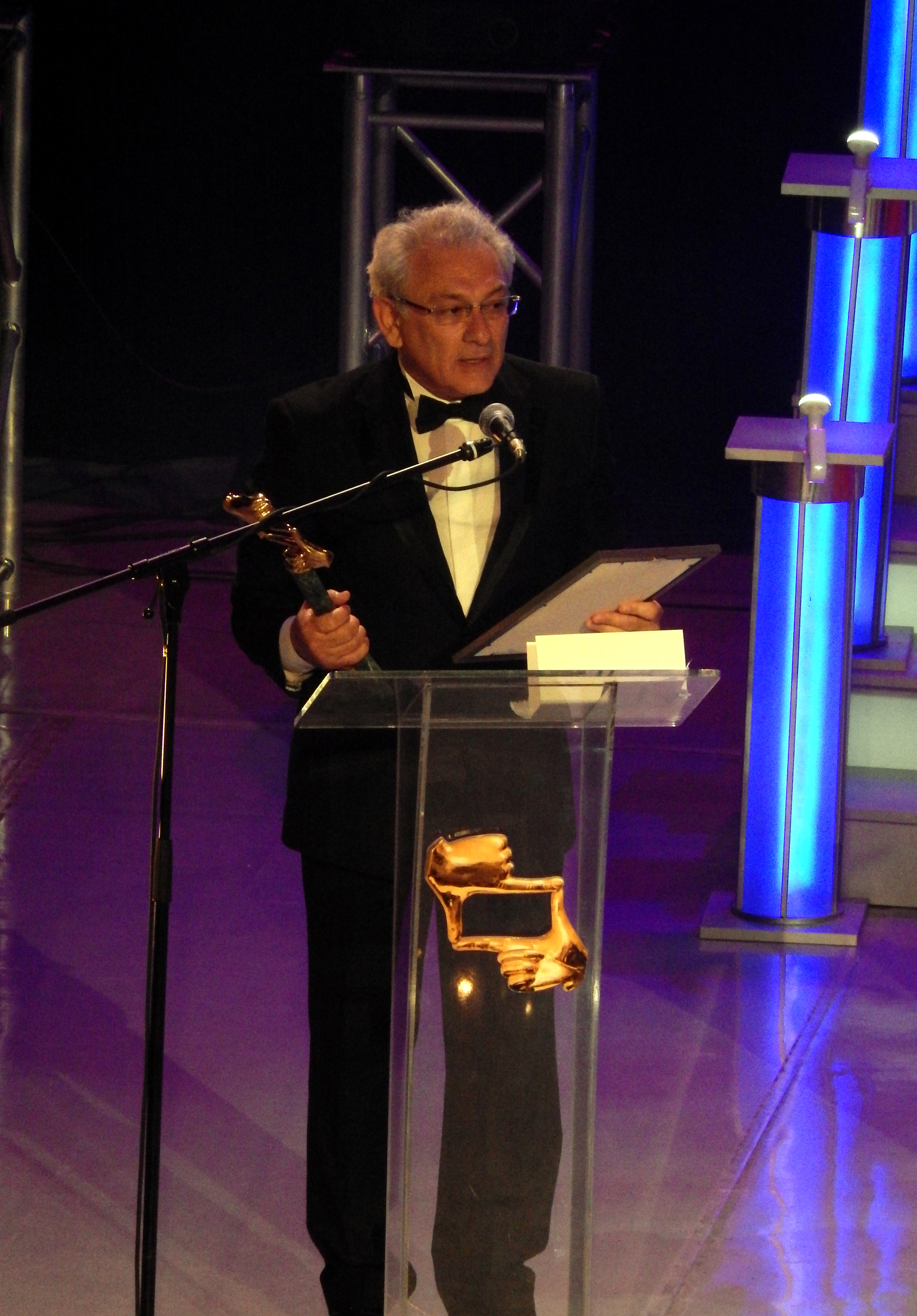 Serzh Avetikyan